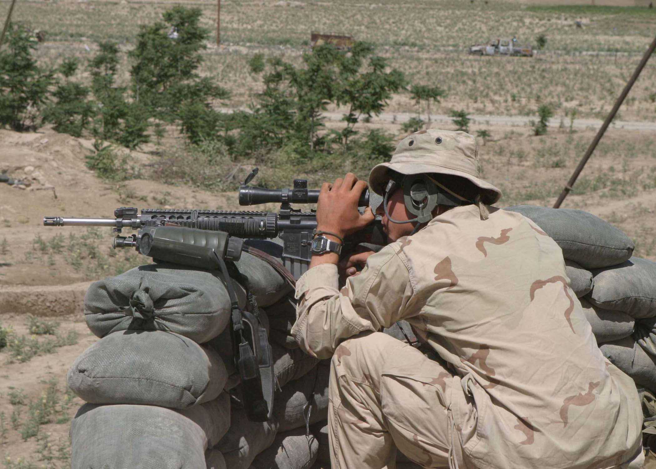 A designated marksman (Cpl Panikowski, Justin A.) from Alpha Company, Battalion Landing Team 1st Battalion, 6th Marines surveys the area around his task force's headquarters in Khas Oruzgan, Afghanistan during Operation PEGASUS. BLT 1/6 is the ground combat element of the 22nd Marine Expeditionary Unit (Special Operations Capable).